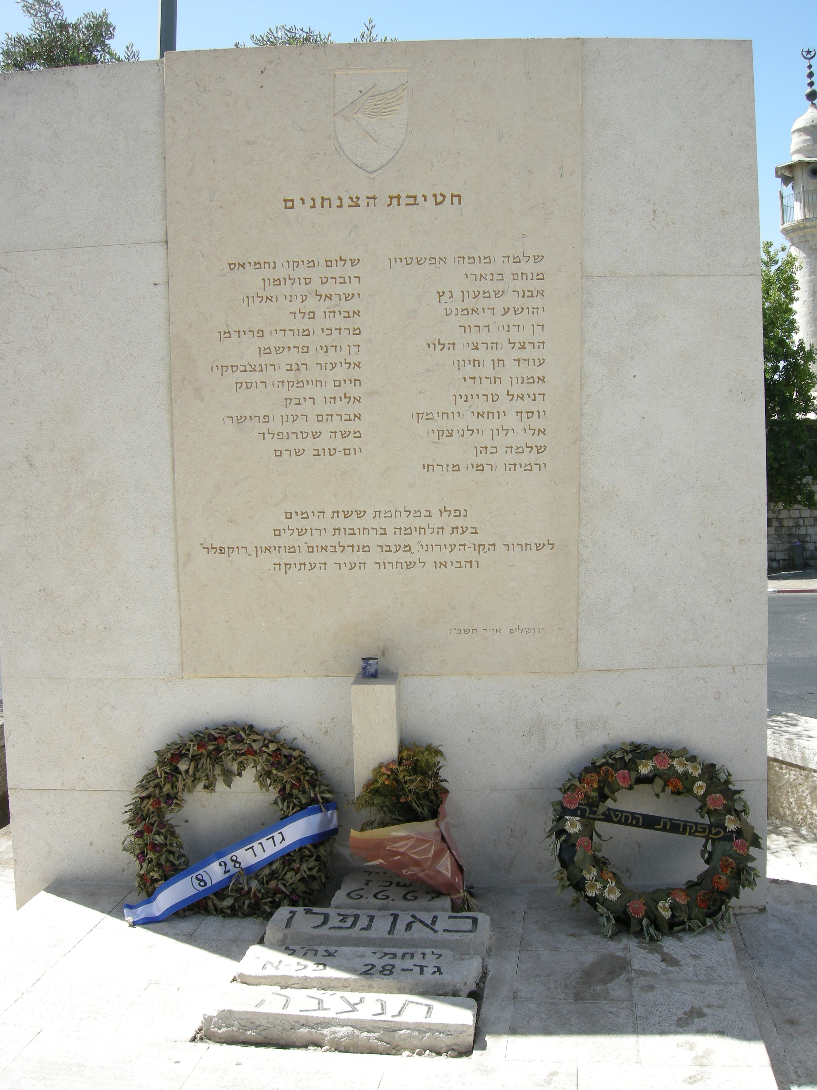 Siur_wikipedia_in__Jerusalem